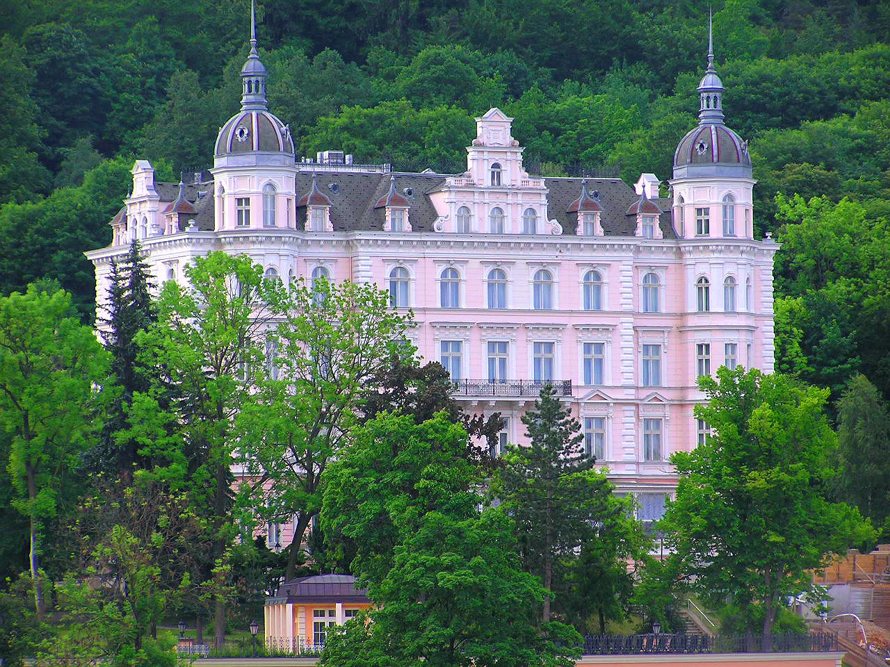 Karlovy Vary, Palace Bristol